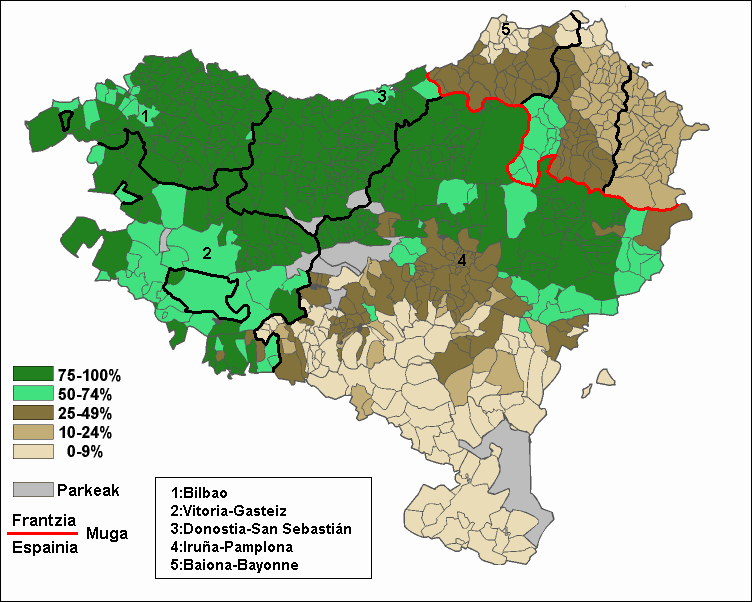 Percentage of school children registered in Basque-language educational models (2000-2005)